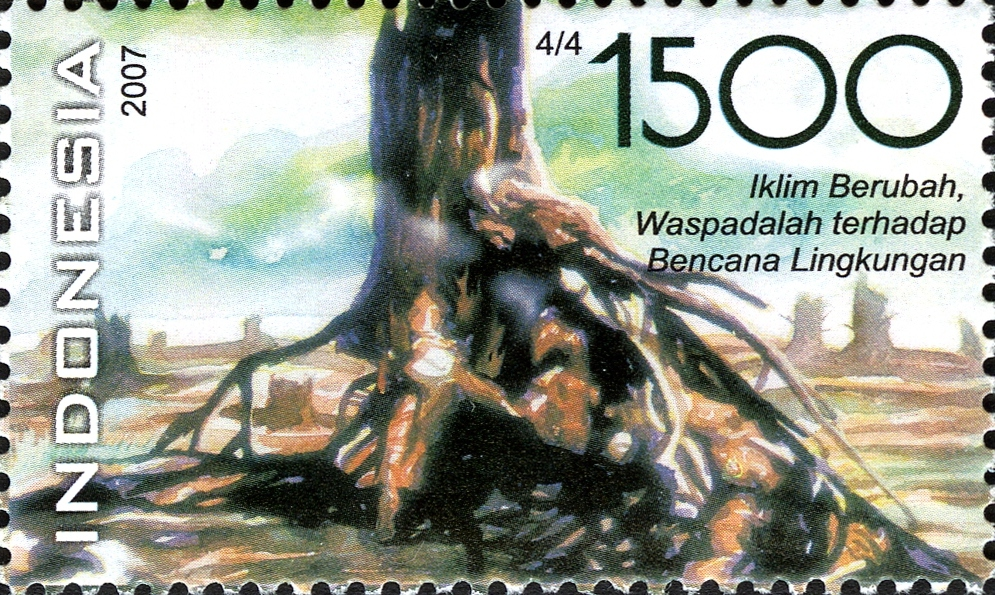 Stamps of Indonesia